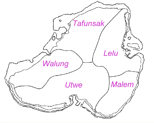 Kosrae map with municipalities and CDPs (census designated places) of 1980 Kosrae is a state of the Federated States of Micronesia in the Central Pacific Ocean